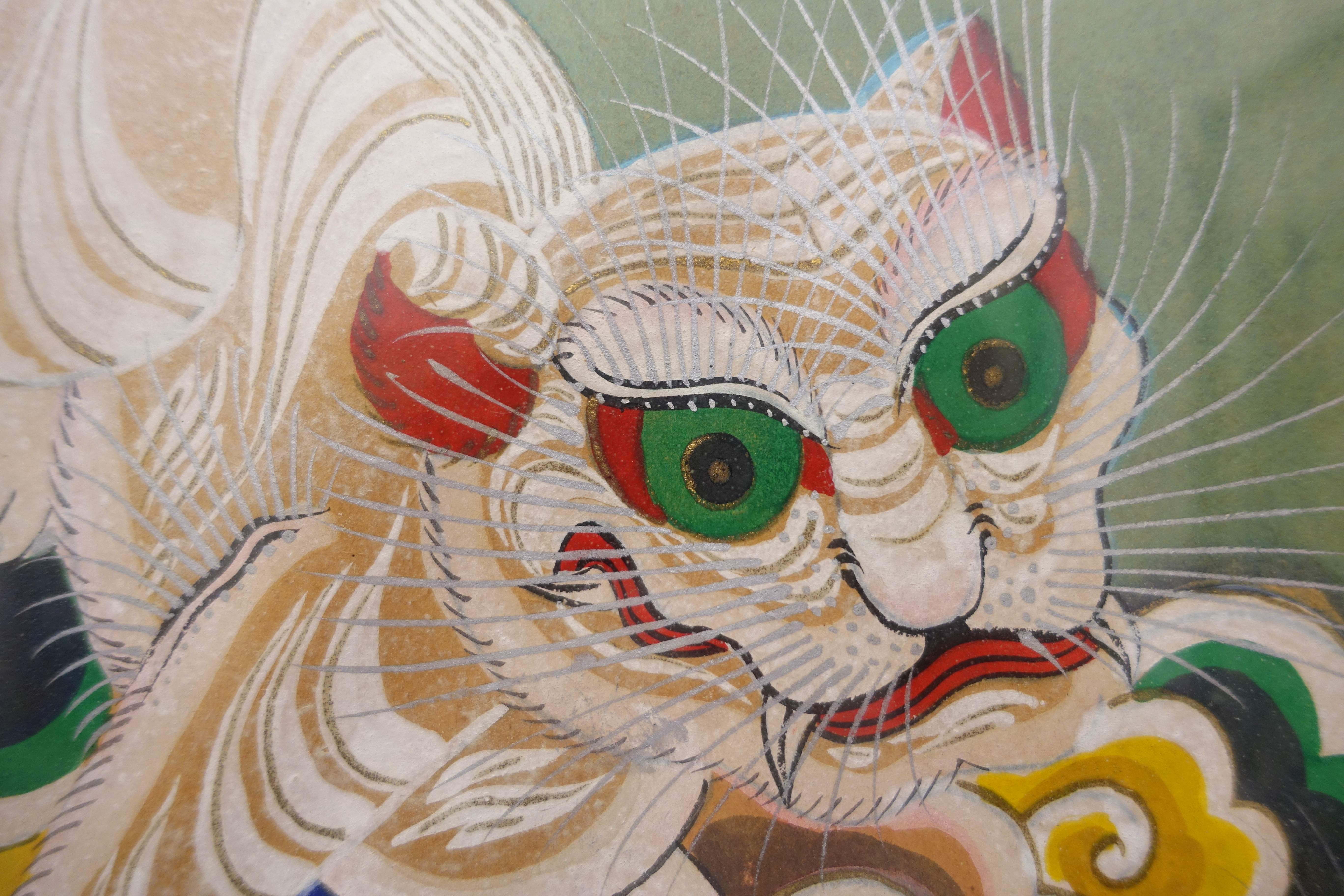 Exhibit in the Vietnam National Museum of Fine Arts - Hanoi, Vietnam. This artwork is old enough so that it is in the public domain.